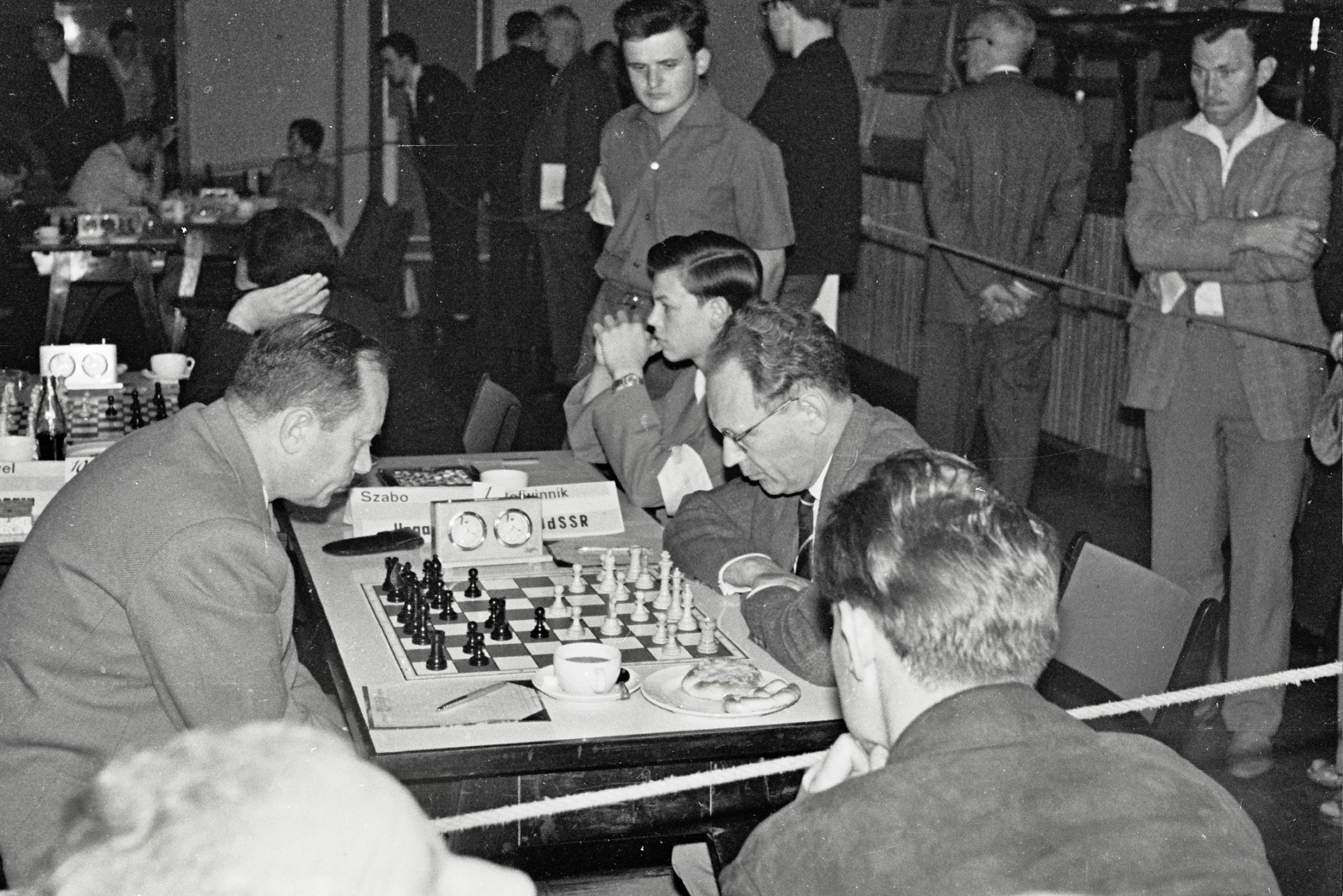 Szabo - Botvinnik, European Chess Team Championship 1961 at Oberhausen, Photographer Gerhard Hund.